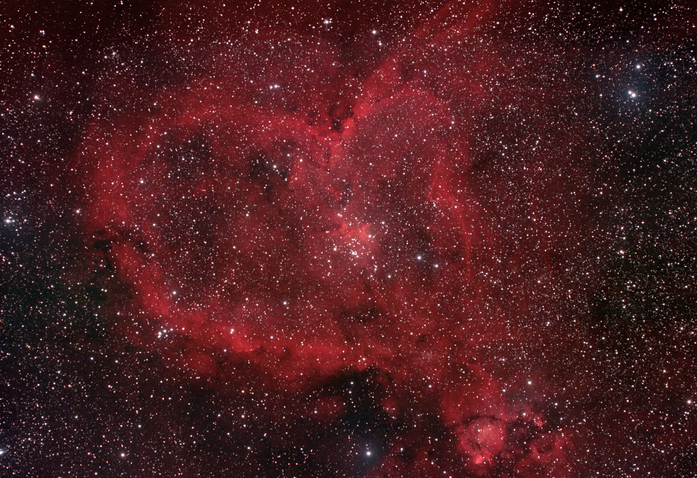 Subject: IC1805 -- Heart Nebula (RGB + H-alpha) Image FOV = 2 degrees 55 minutes by 2 degrees (175 minutes by 120 minutes) Image Scale = 7.5 arc-second/pixel Location: near Halcottsville, NY Exposure: 26 x 10 minutes H-alpha plus 13 x 10 minutes RGB = 6h30m total exposure, ISO800, f/4.8 Filter: Baader 7nm H-alpha filter (H-alpha), IDAS LP filter (RGB) Camera: Hutech-modified Canon 30D Telescope: SV80S 80mm f/6 + TV TRF-2008 0.8X reducer/flattener = 384mm FL, f/4.8 Mount: Astro-Physics AP900 Guiding: ST-402 autoguider and SV66 guidescope. MaximDL autoguiding software using 6-second guide exposures Processing: Raw conversion and calibration with ImagesPlus (dark and bias frames only, no flat frames); Aligning and combing with Registar; Levels adjustment on RGB and H-alpha image. Then: Red channel = 1/3 * RGB_ red + 2/3 * max(gamma(RGB_red, .75), Ha_red) Green channel = 1/3 * RGB_ green + 2/3 * max(gamma(RGB_green, .75), 1/3 * Ha_red/5) Blue channel = 1/3 * RGB_ blue + 2/3 * max(gamma(RGB_blue, .75), 1/3 * Ha_red/5) Then, more levels, cropping/resizing, JPEG conversion with Photoshop CS. Remarks: Temperature at end: 22F (H-alpha), 26F (RGB); SQM readings: 21.3 to 21.49; No noise reduction.